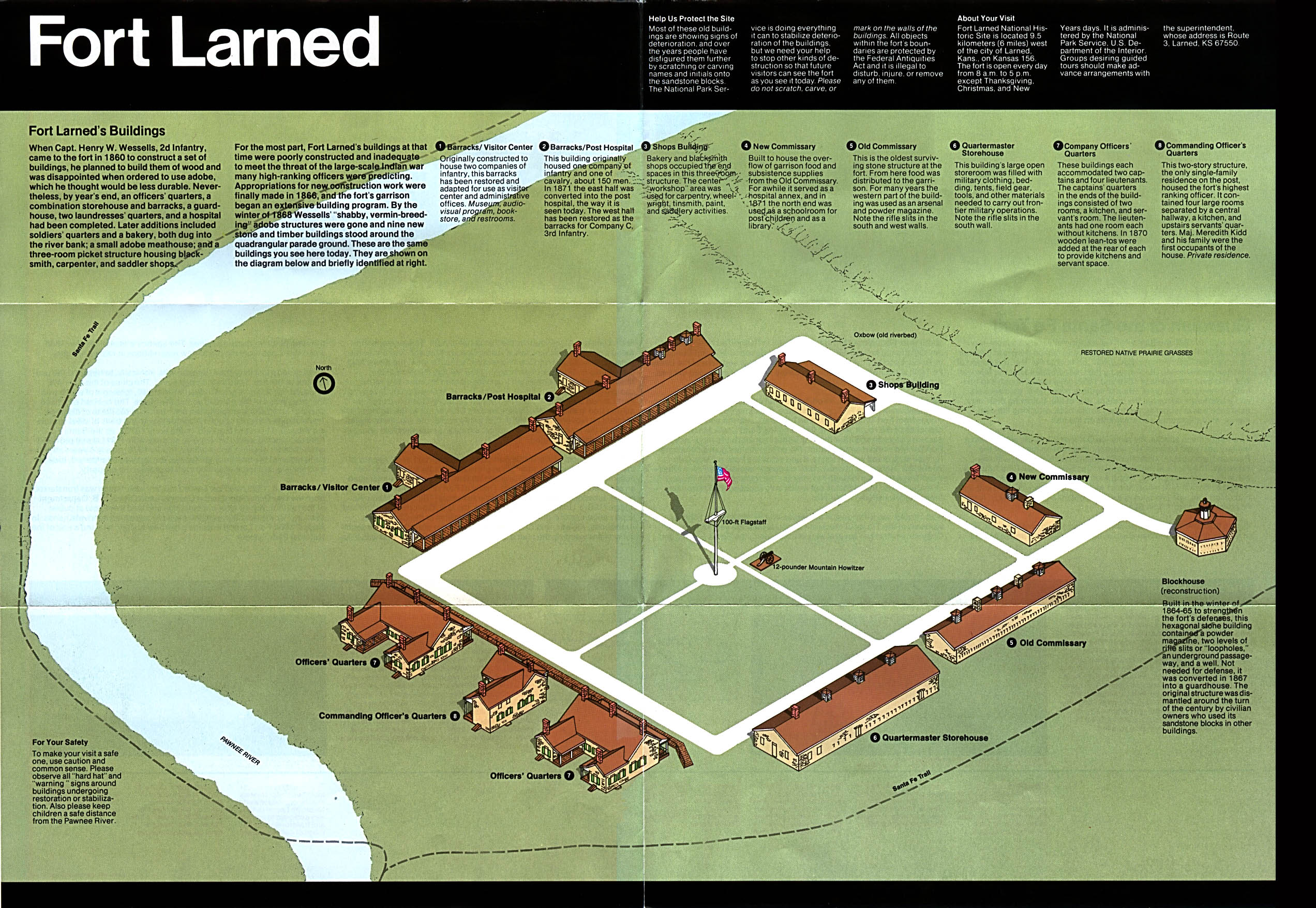 Schematic of Fort Larned National Historic site originally listed at